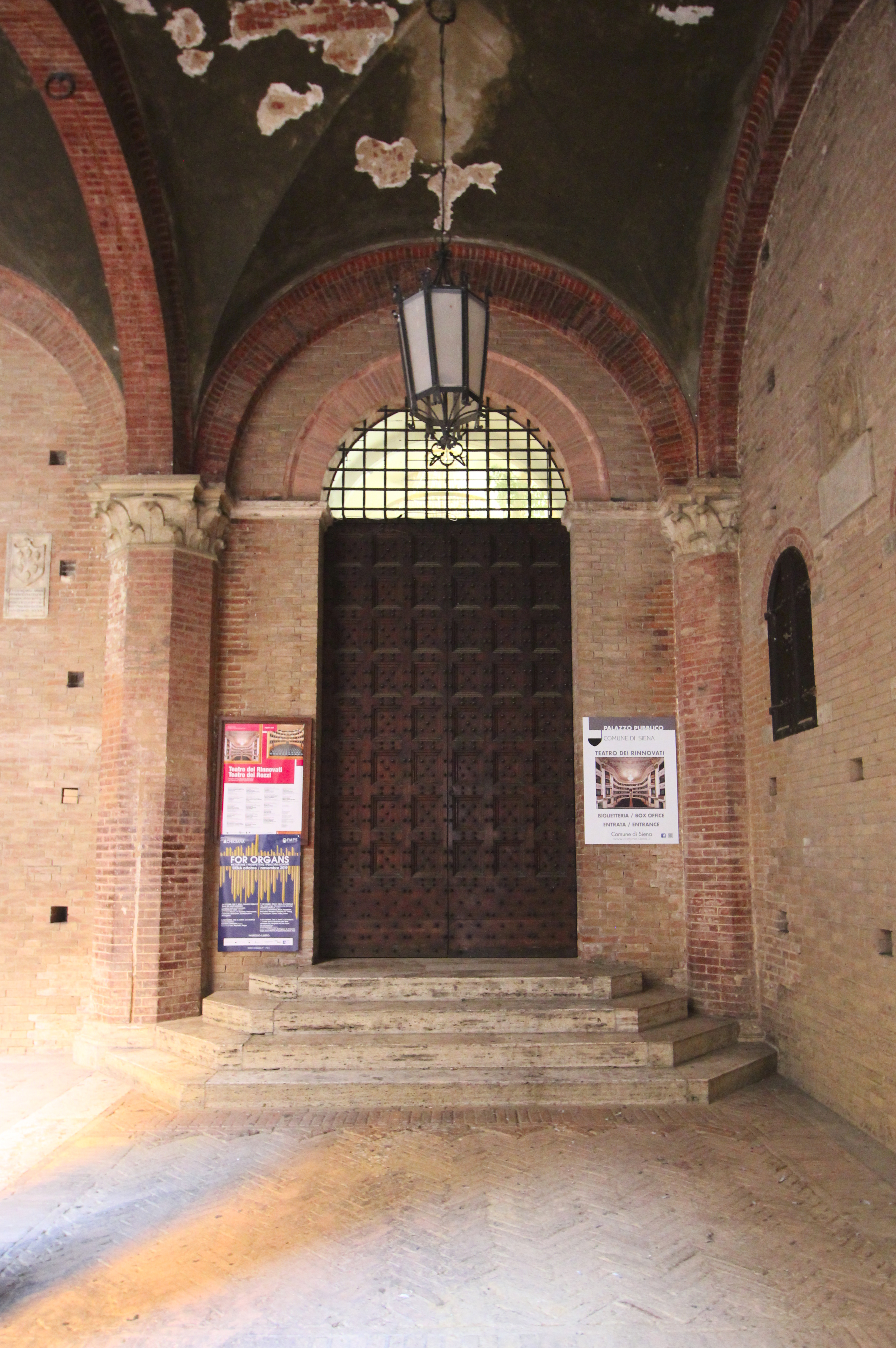 Theatre Teatro dei Rinnovati, part of the Palazzo Comunale (Palazzo Pubblico), Siena, Tuscany, Italy